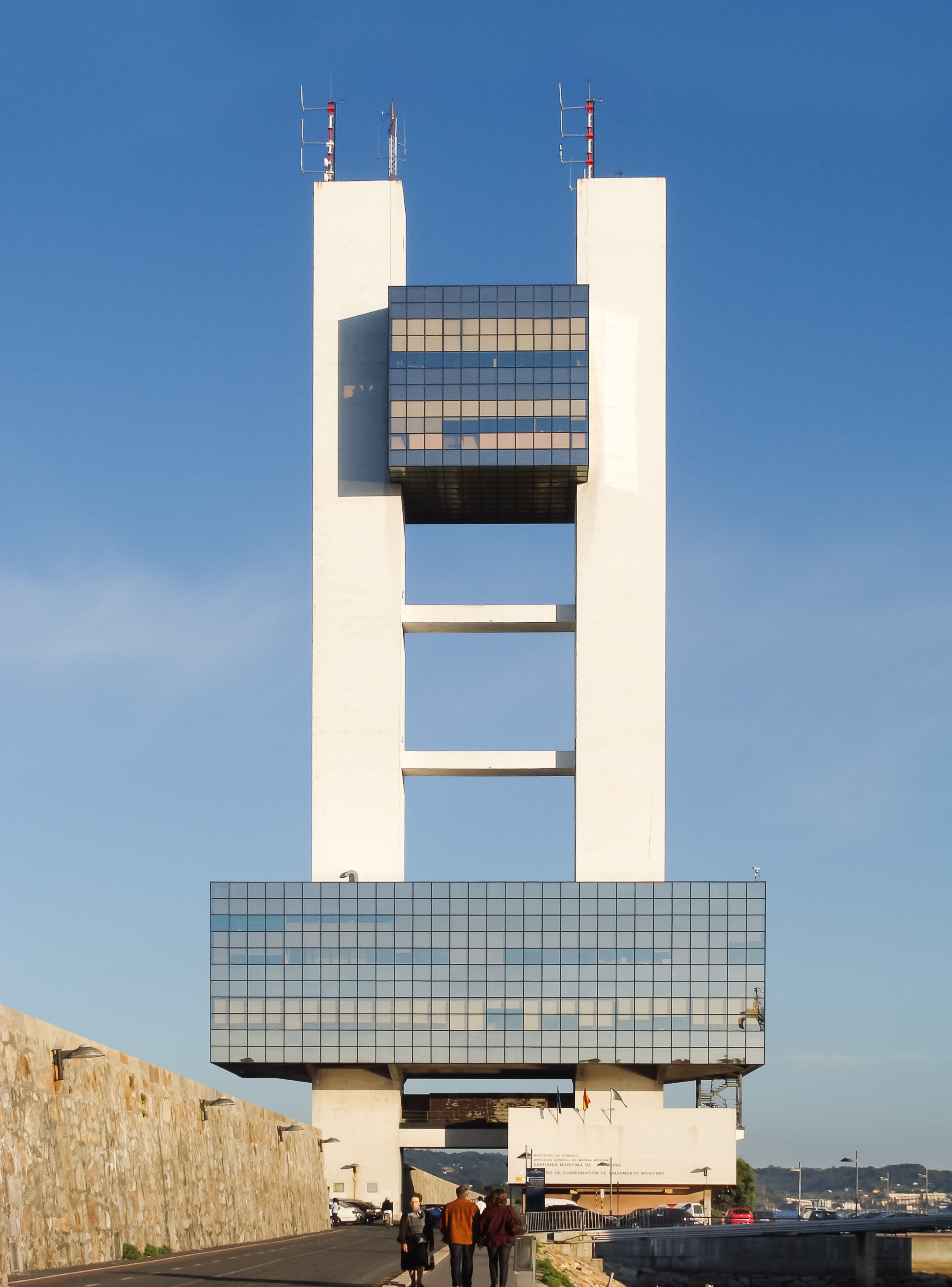 Towers of Sea Control Corunna